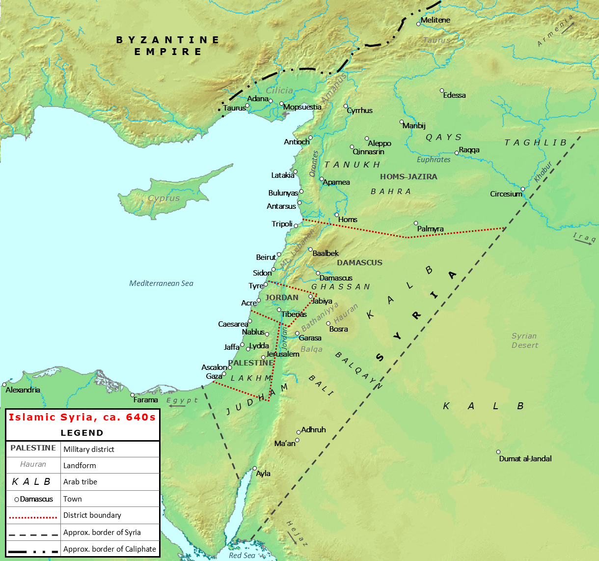 Map of Islamic Syria (Bilad al-Sham) under the Rashidun caliphs Umar and Uthman. The map shows the approximate boundaries of Syria's military districts before their reorganization during the Umayyad and Abbasid caliphates, the region's major towns during this period, and the territories of the major resident Arab tribes before the mass tribal migrations from Arabia during the governorship of Mu'awiya ibn Abi Sufyan (639-661). Sources for tribes and approximate district boundaries: Donner, Fred M. (1981). The Early Islamic Conquests. Princeton: Princeton University Press ISBN 0-691-05327-8 Hinds, M. (1993). "Muʿāwiya I b. Abī Sufyān". In Bosworth, C. E.; van Donzel, E.; Heinrichs, W. P. & Pellat, Ch. (eds.). The Encyclopaedia of Islam, New Edition, Volume VII: Mif–Naz. Leiden: E. J. Brill. pp. 263–268. ISBN 90-04-09419-9. Sourdel, D. (1965). "Filasṭīn — I. Palestine under Islamic Rule". In Lewis, B.; Pellat, Ch. & Schacht, J. (eds.). The Encyclopaedia of Islam, New Edition, Volume II: C–G. Leiden: E. J. Brill. pp. 910–913. ISBN 90-04-07026-5.